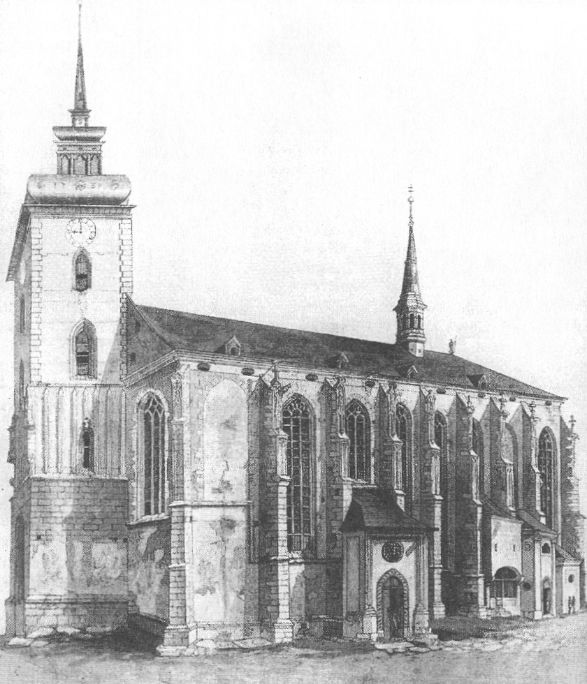 St. Jacob church in Brno in 1828